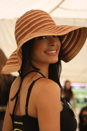 Miss Dominican Republic 2008 Nathali Montes de_ Oca during Miss World 08 in Johannesburg